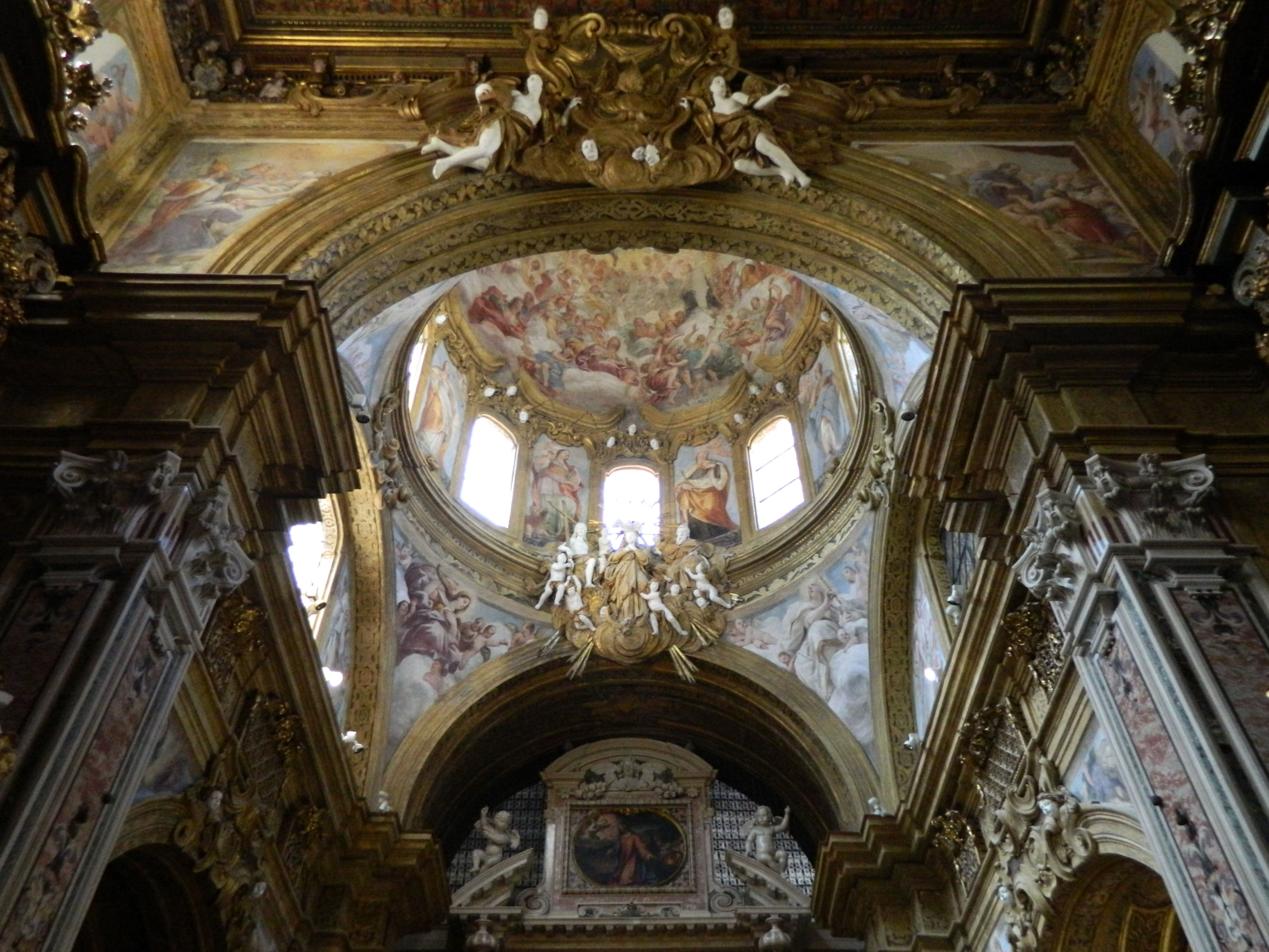 Chiesa di San Gregorio Armeno (Napoli) - Cupola